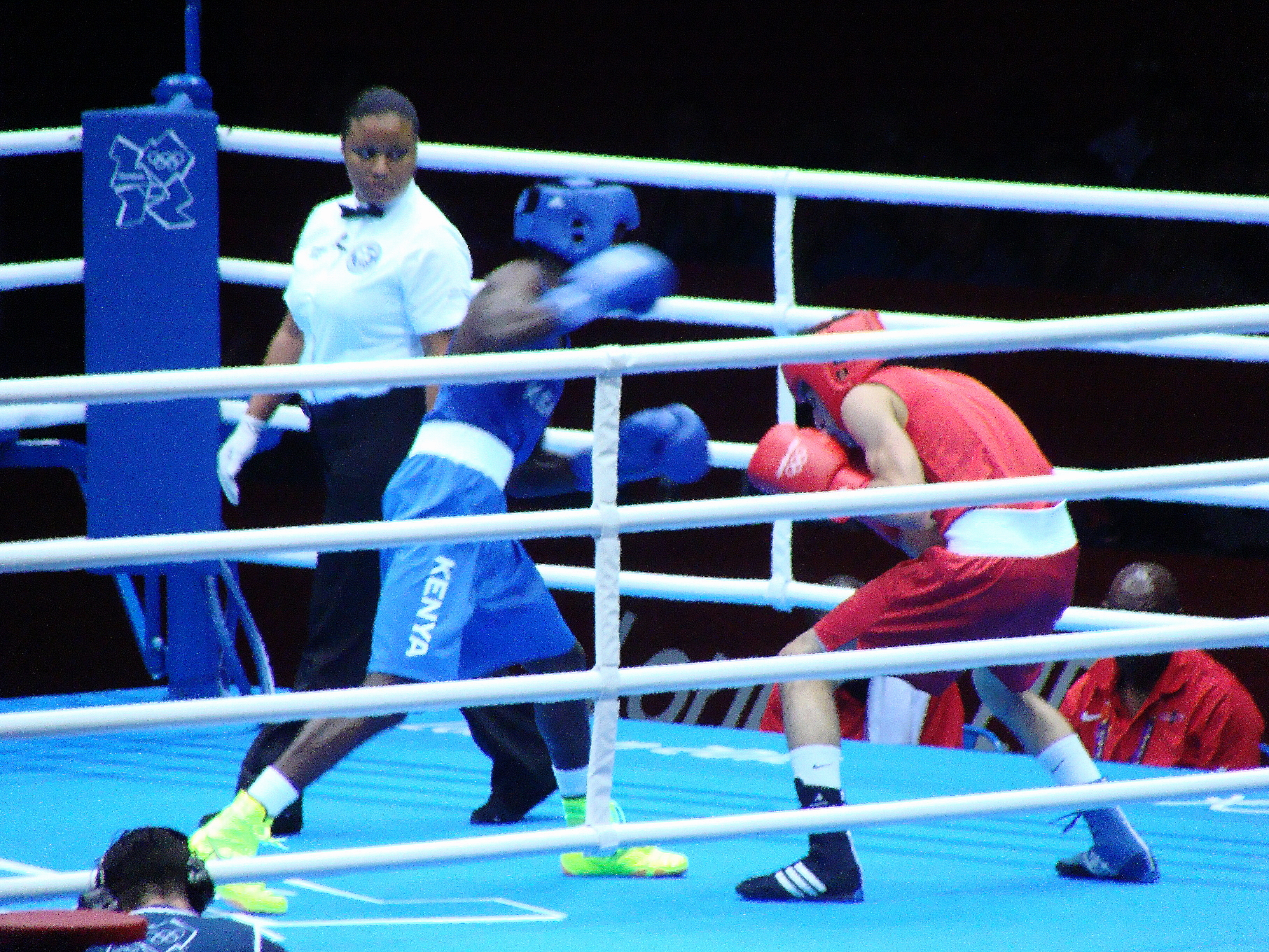 Hesham Abdelaal (red) vs Benson Gicharu (blue) at the 2012 Summer Olympics.